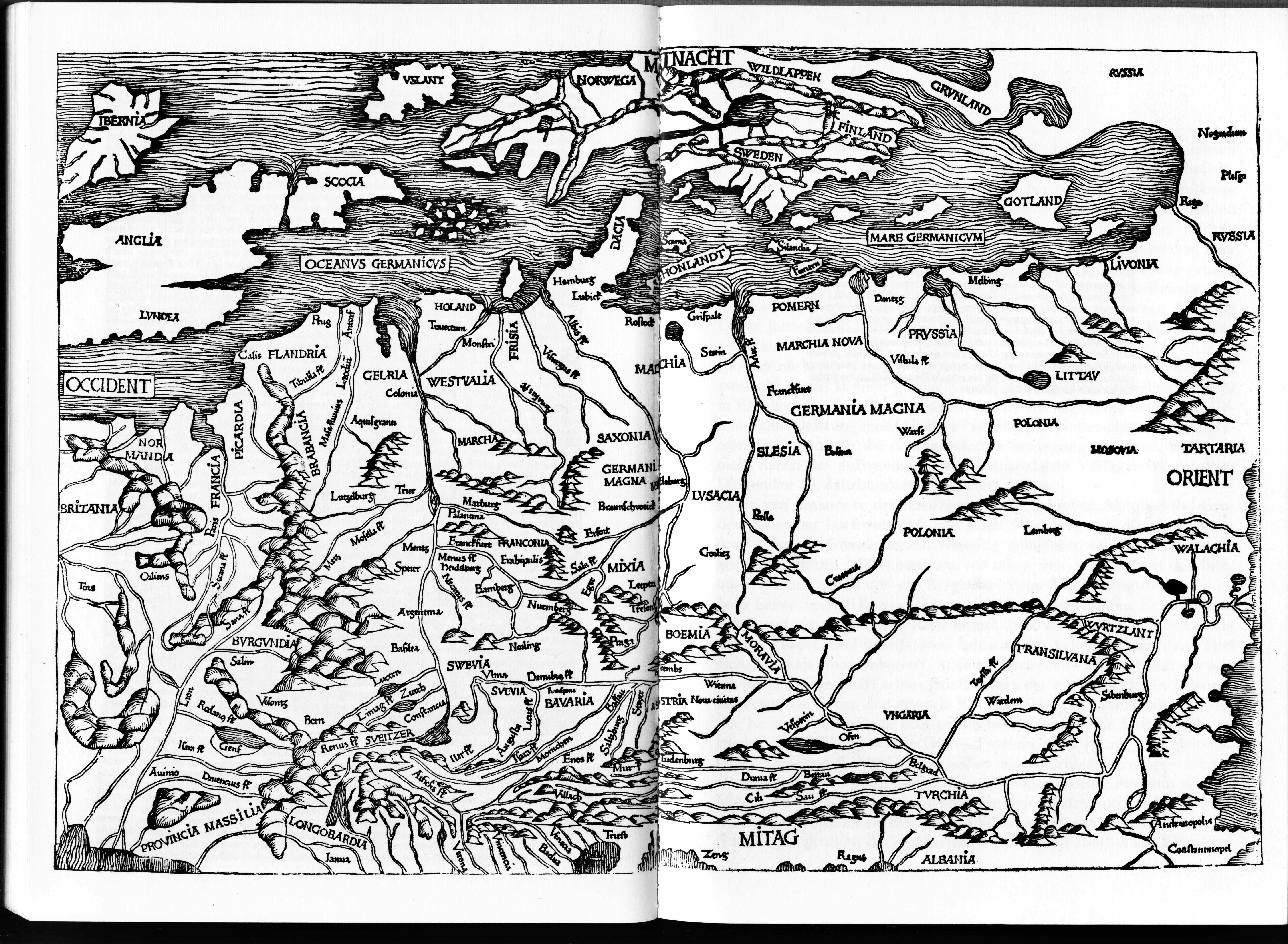 This is a scan of the historical document